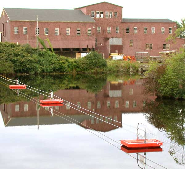 The Saco River at Saco, Maine, seen from the bridge on U.S. Highway 1 (taken Sept. 21, 2004) © 2004 Matthew Trump